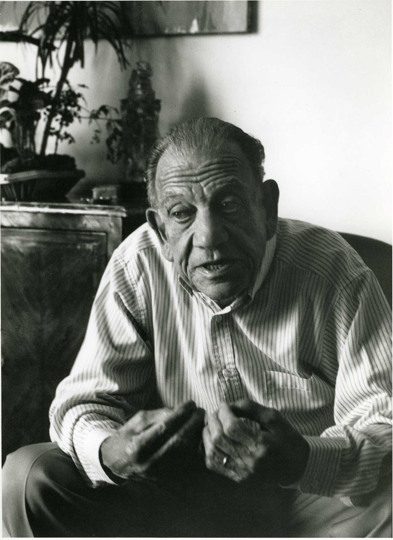 Edmond Jabes